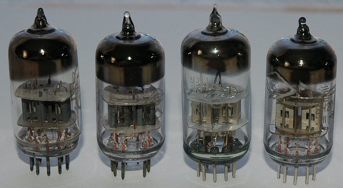 I made this image myself, from the tubes in my collection on March 5, 2006.